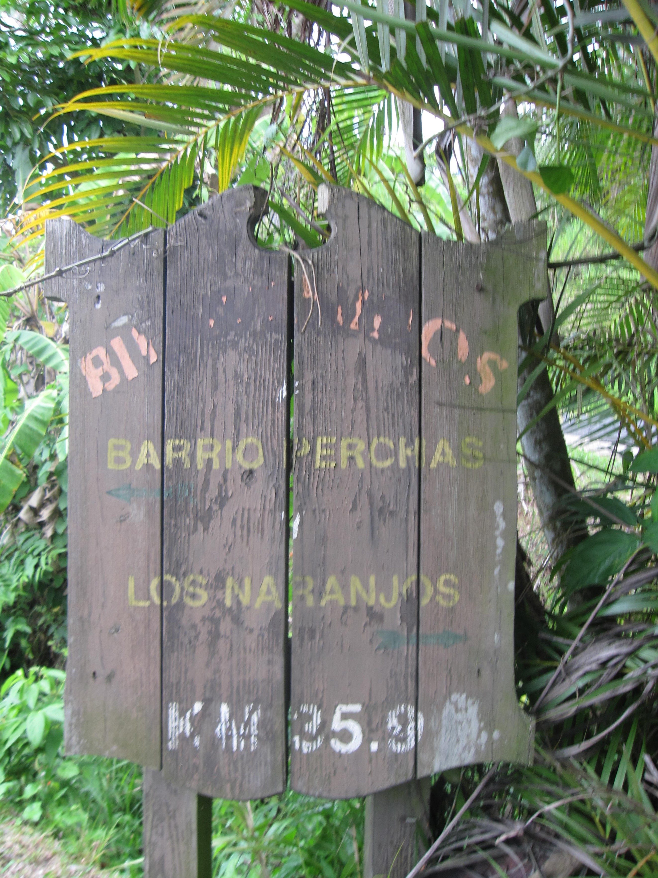 Sign for Barrio Perchas, in Morovis, on Puerto Rico Hwy 155, Km 35.9